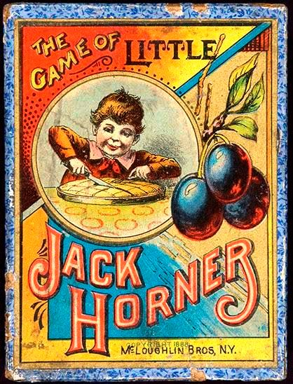 The card game of Little Jack Horner, first marketed by the McLoughlin Brothers of New York in 1888